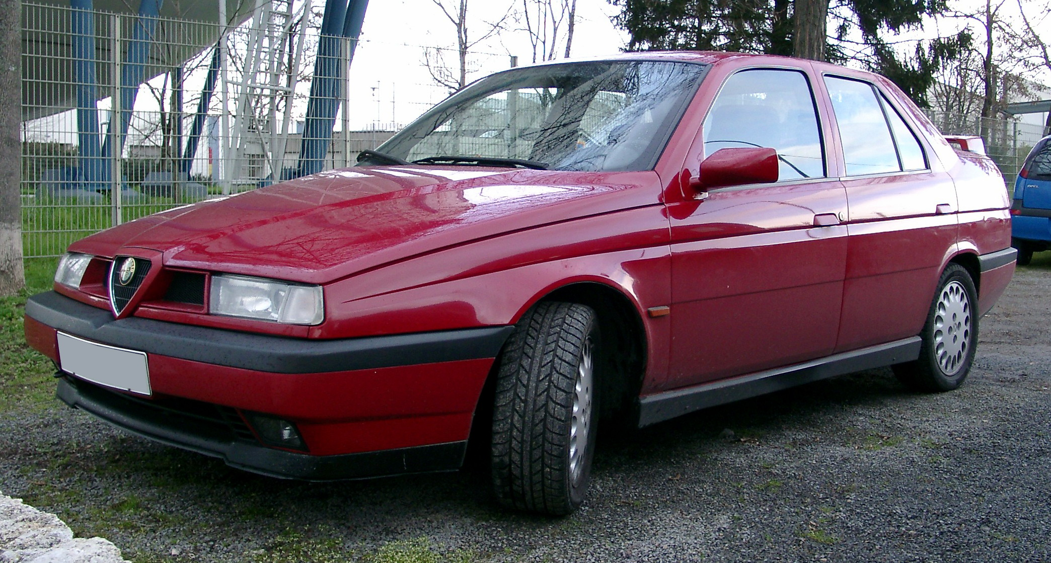 Alfa Romeo 155Dansk: Alfa Romeo 155